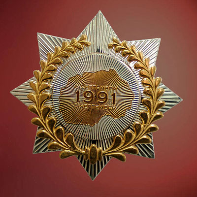 Orden 8 septemvri